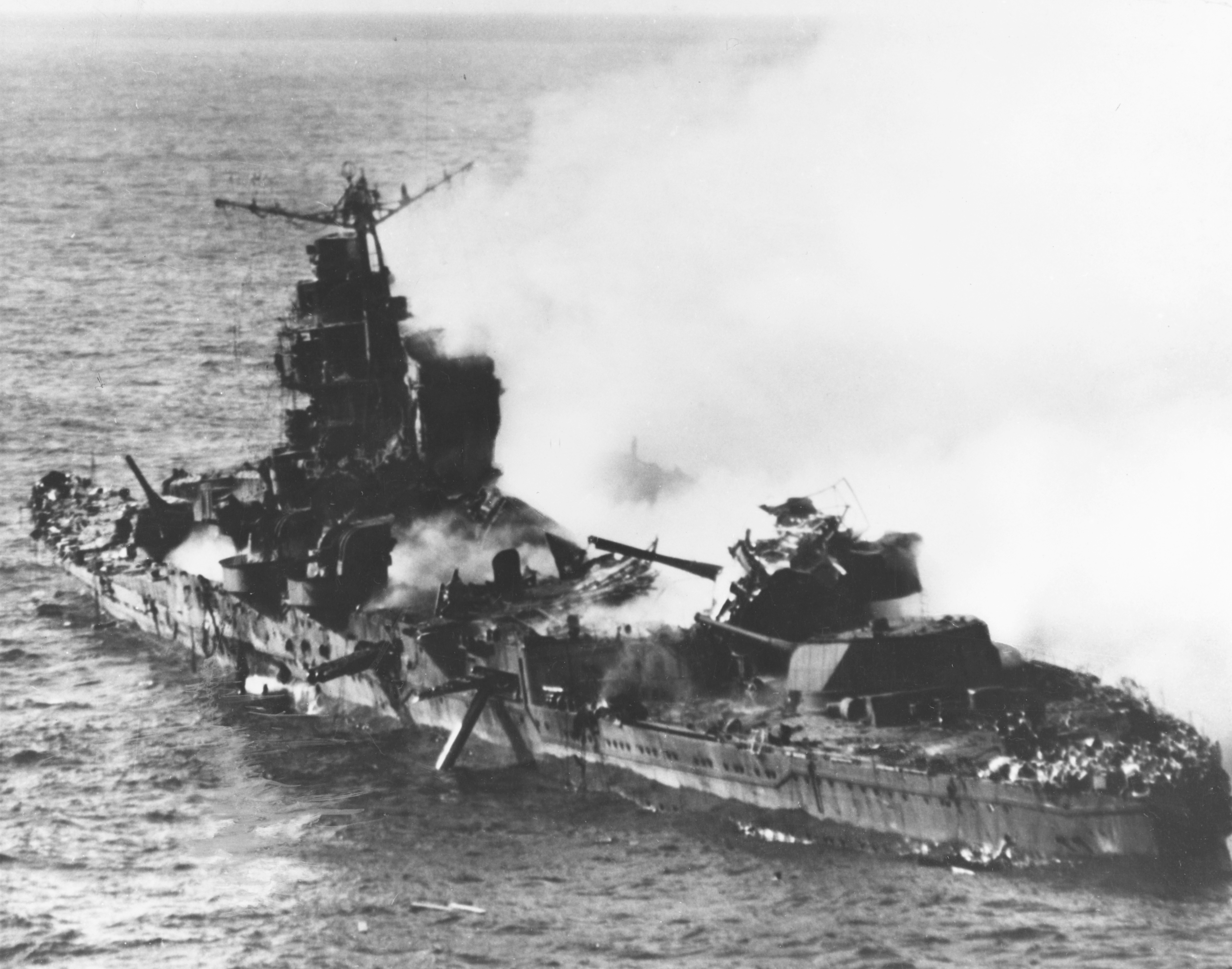 The Japanese heavy cruiser Mikuma, photographed from a USS Enterprise (CV-6) Douglas SBD-3 Dauntless during the afternoon of 6 June 1942, after she had been bombed by planes from Enterprise and USS Hornet (CV-8). Note her shattered midships structure, torpedo dangling from the after port side tubes and wreckage atop her number four 203 mm gun turret.The photo flight was led by Lt(jg) E.J. Kroeger, A-V(N), USNR, of Bombing Squadron 6 (VB-6) with photographer Mr. A.D. Brick of Fox Movietone News in a SBD-3 of VB-3 ("3-B-10"). Kroeger was accompanied by Lt.(jg) C.J. Dobson of Scouting Squadron 6 (VS-6) and photographer CP(PA) J.S. Mihalovitch in SBD "6-S-18".